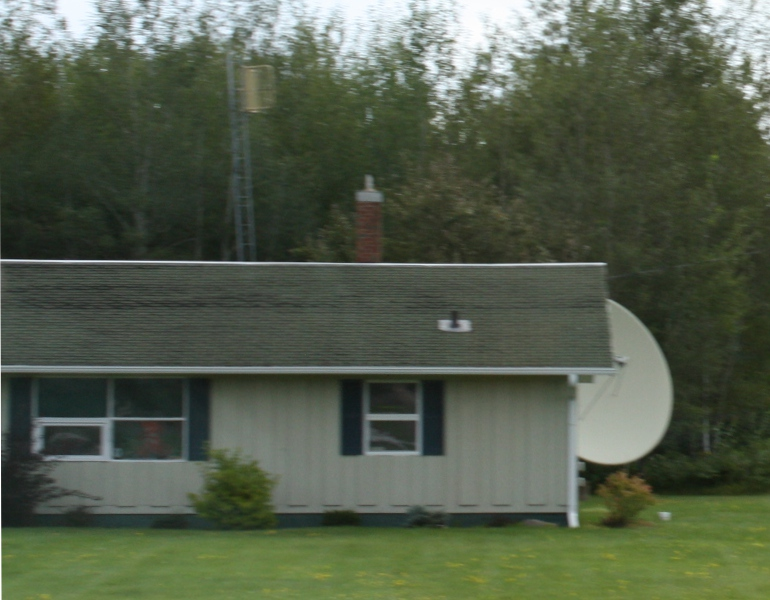 The studios for WCQM 98.3 and WPFP 980AM Park Falls, Wisconsin.